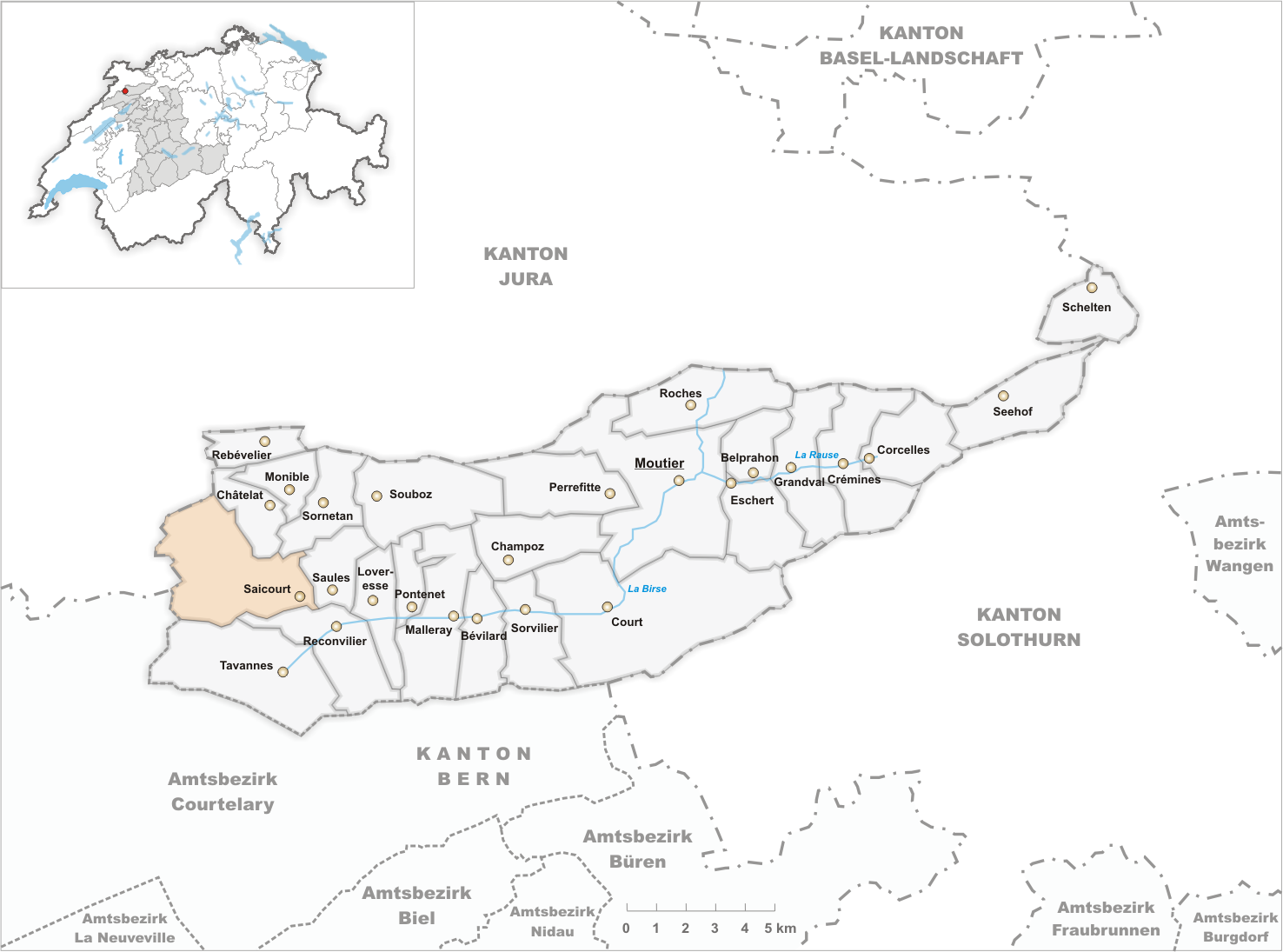 Municipality Saicourt